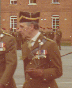 Major General John Strawson in No 2, Sewvice Dress, wearing the distinctive "tent hat" of the Irish Hussars.